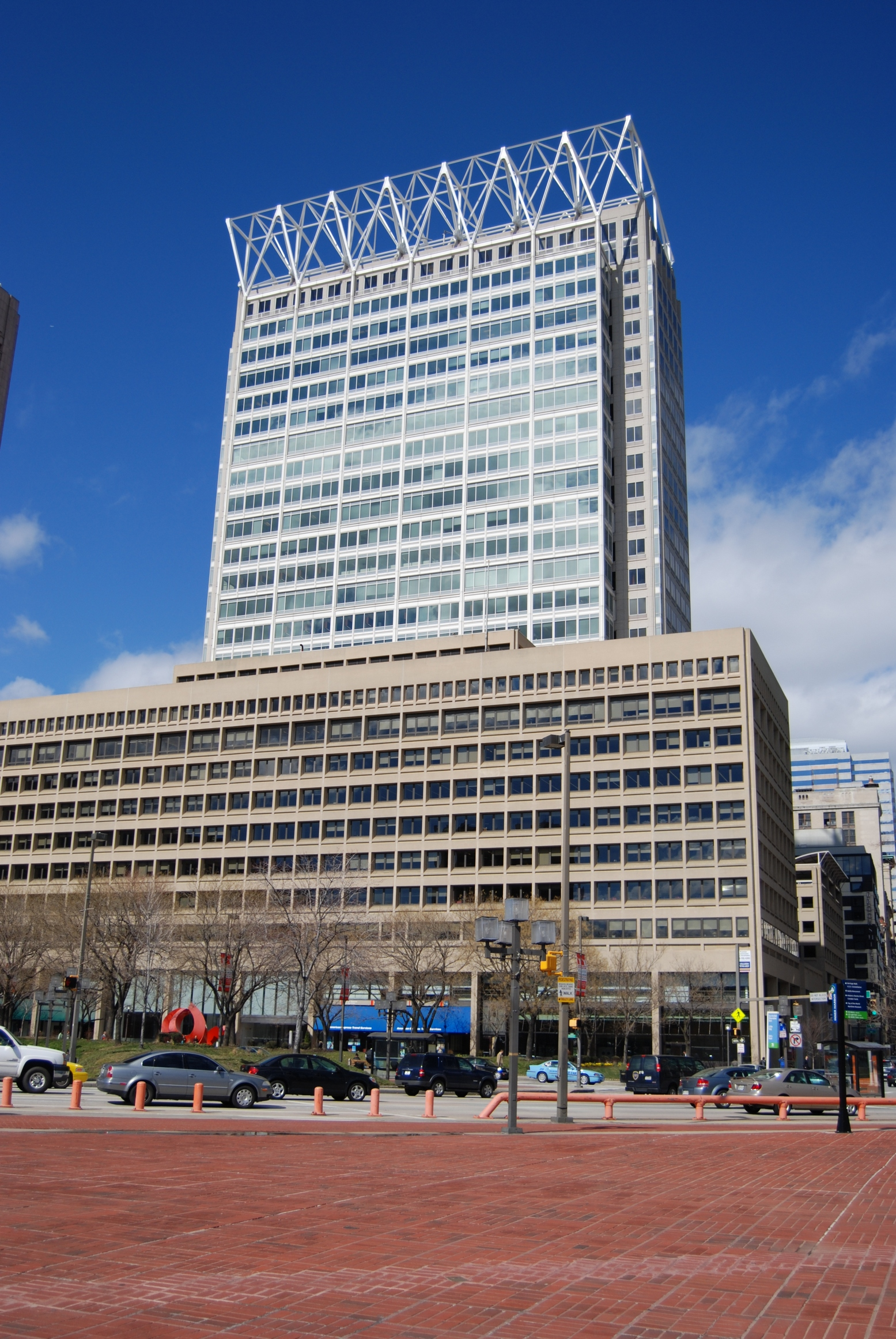 100 East Pratt Street Baltimore Maryland